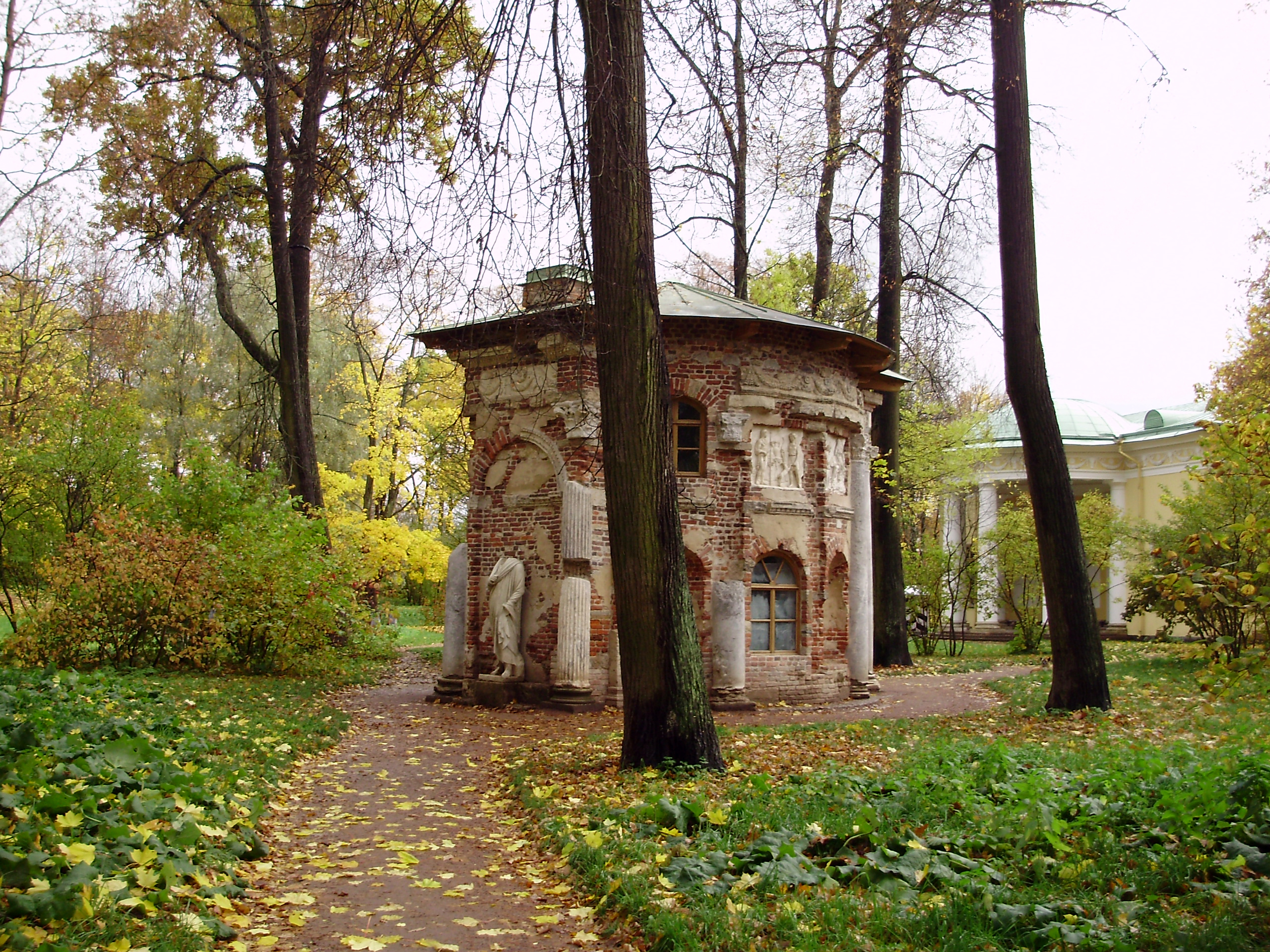 Kitchen Ruin in Catherine Park in autumn